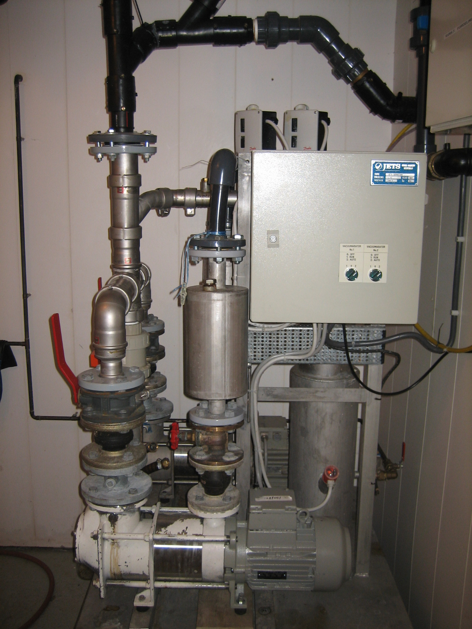 This is where the low pressure is generated. Here the wastewater is also brought from vacuum side to pressure side.